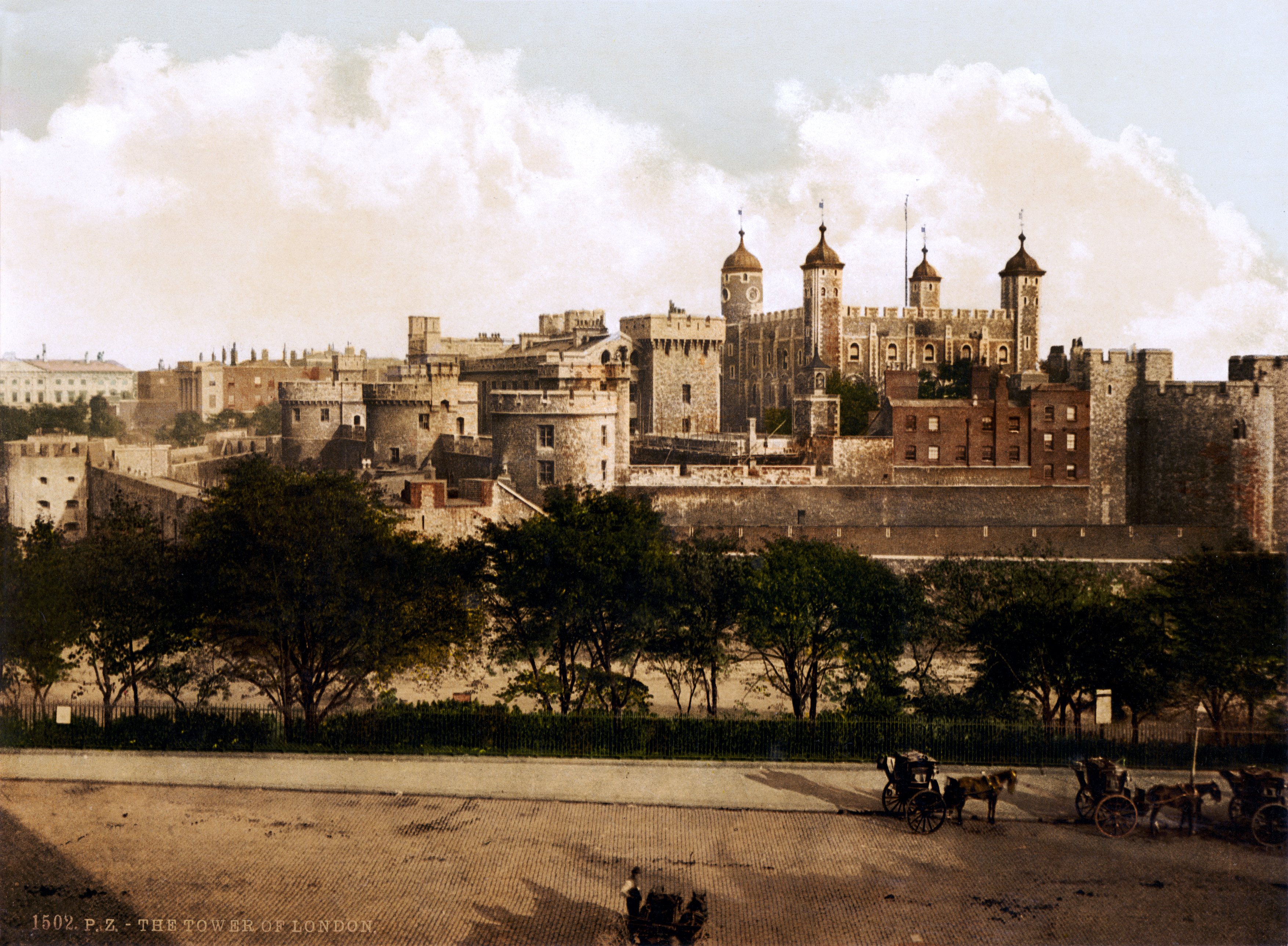 1502 P.Z. The Tower of London. Photochrom print by Photoglob Zürich, between 1890 and 1900. From the Photochrom Prints Collection at the Library of Congress More photochroms from England | More photochrom prints [PD] This picture is in the public domain